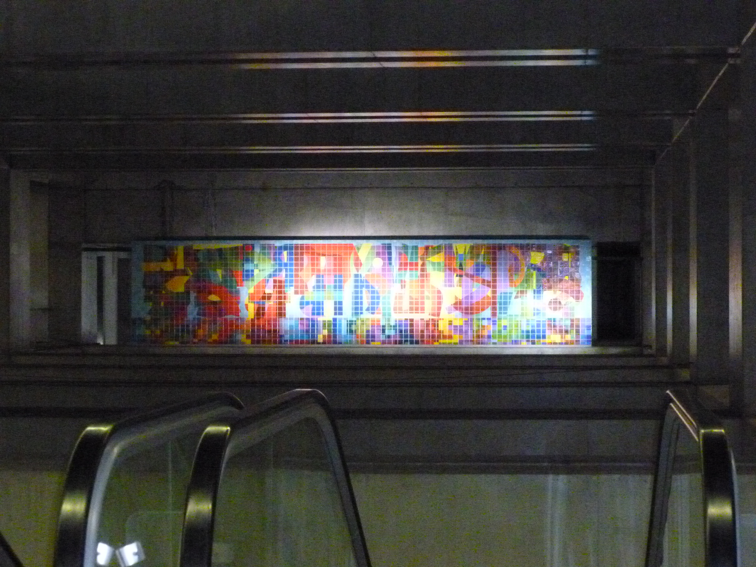 Azulejo in Terreiro do Paço metro station (Lisbon).